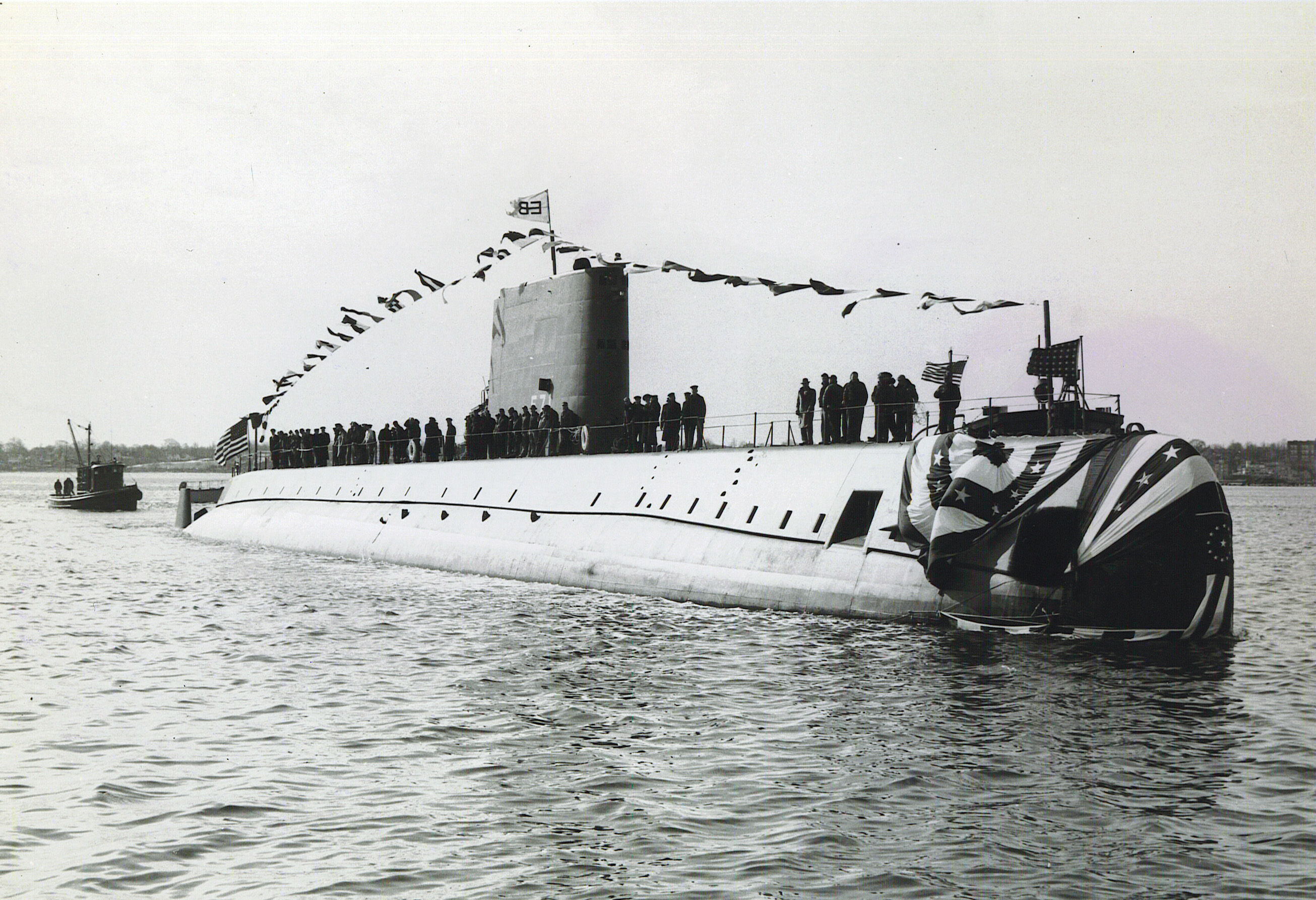 WASHINGTON (Jan. 20, 2012) In this file photo taken Jan. 21, 1954, the nuclear-powered submarine USS Nautilus (SSN 571) is in the Thames River shortly after a christening ceremony. (U.S. Navy photo/Released)